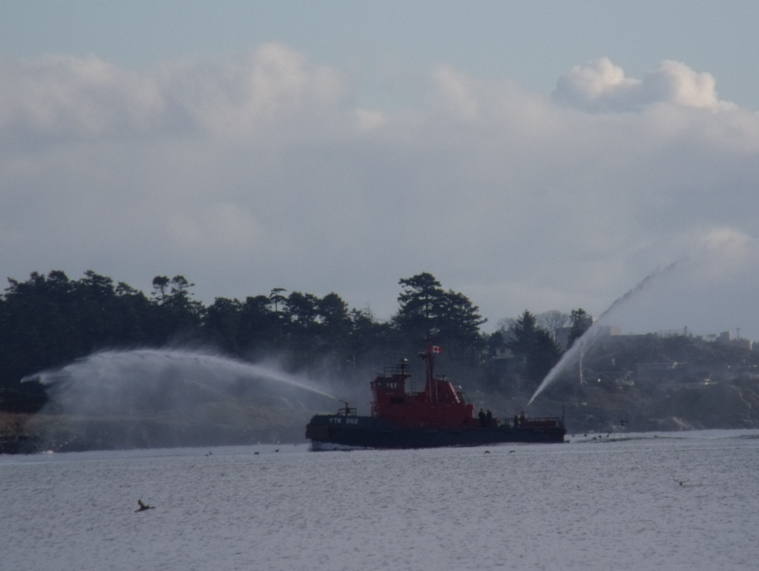 The YTR 562 Firebrand is one of the RCN's two Firebrand class fireboats. The RCN has let out a request to replace these two ships, and the Navy's largest tugs with a single class to serve both roles.